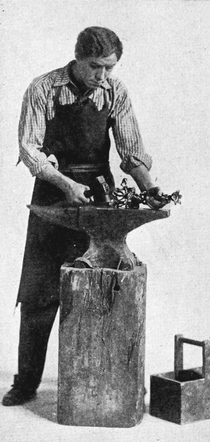 Wolf-Ferrari - I gioielli della Madonna - George Hamlin as Gennaro - Matzene Title: The Victrola book of the opera : stories of one hundred and twenty operas with seven-hundred illustrations and descriptions of twelve-hundred Victor opera records Year: 1917 (1910s) Authors: Victor Talking Machine Company Rous, Samuel Holland Subjects: Operas Publisher: Camden, N.J. : Victor Talking Machine Co. Text Appearing Before Image: DOVER ST. STUDIOS Text Appearing After Image: SAM MARCO AS RAFAELE HAMLIN AS GENNARO JEWELS OF THE MADONNA RECORDS Rafaeles Serenade (Act II) By Pasquale Amato, Baritone (with Metropolitan Opera Chorus) (In Italian) 87193 (Intermezzo (Second Entracte)I Lucia Sextette (Donizetti) Vessellas Band!Vessella s Band) 35356 (Intermezzo (Second Entracte) Victor Orchestra) Merry Wives of Windsor Overture (Nicolai) (3 52 70 New Symphony Orchestra of London) flntermezzo I (First Entracte) I Danse Macabre (Saint-Saens, Op. 40) Victor Orchestral^«-oo;Vessellas Italian Band) 219 10-inch. $2.0012-inch, 1.25 12-inch, 1.25 12-inch, 1.25